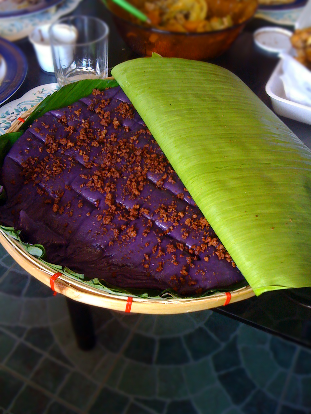 ube-flavored kalamay from the Philippines